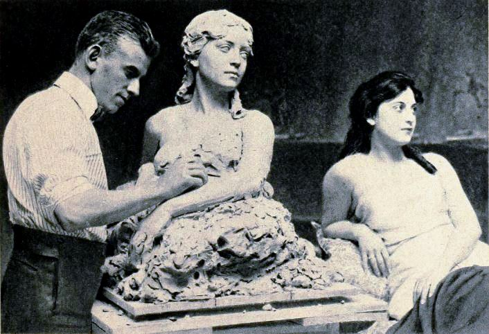 Russian sculptor Gleb W. Derujinsky and actress Virginia Brown Faire as his model, page 29 of the January 1920 Shadowland.